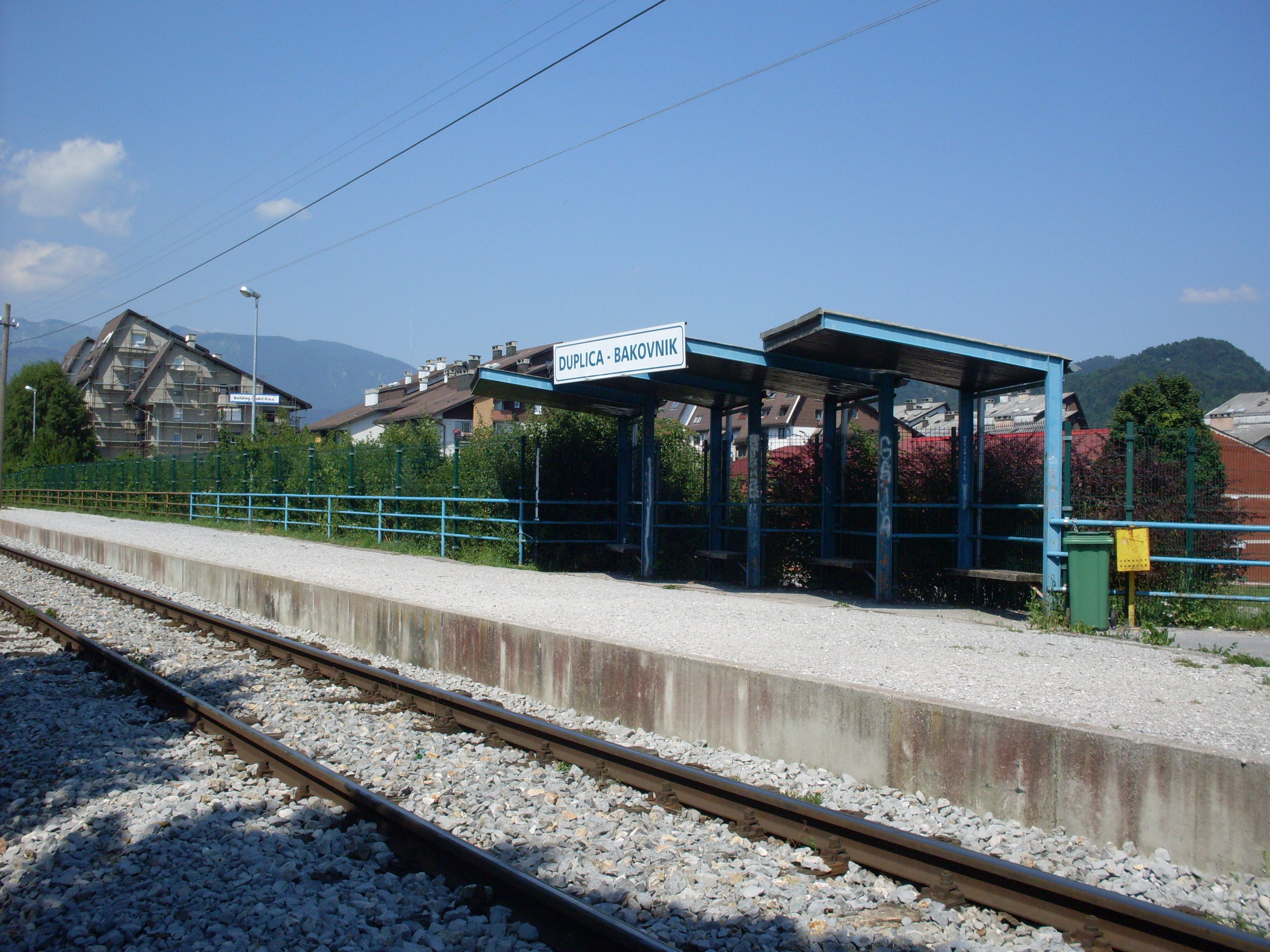 Railway halt "Duplica-Bakovnik", located in southern suburb of Kamnik, Slovenia